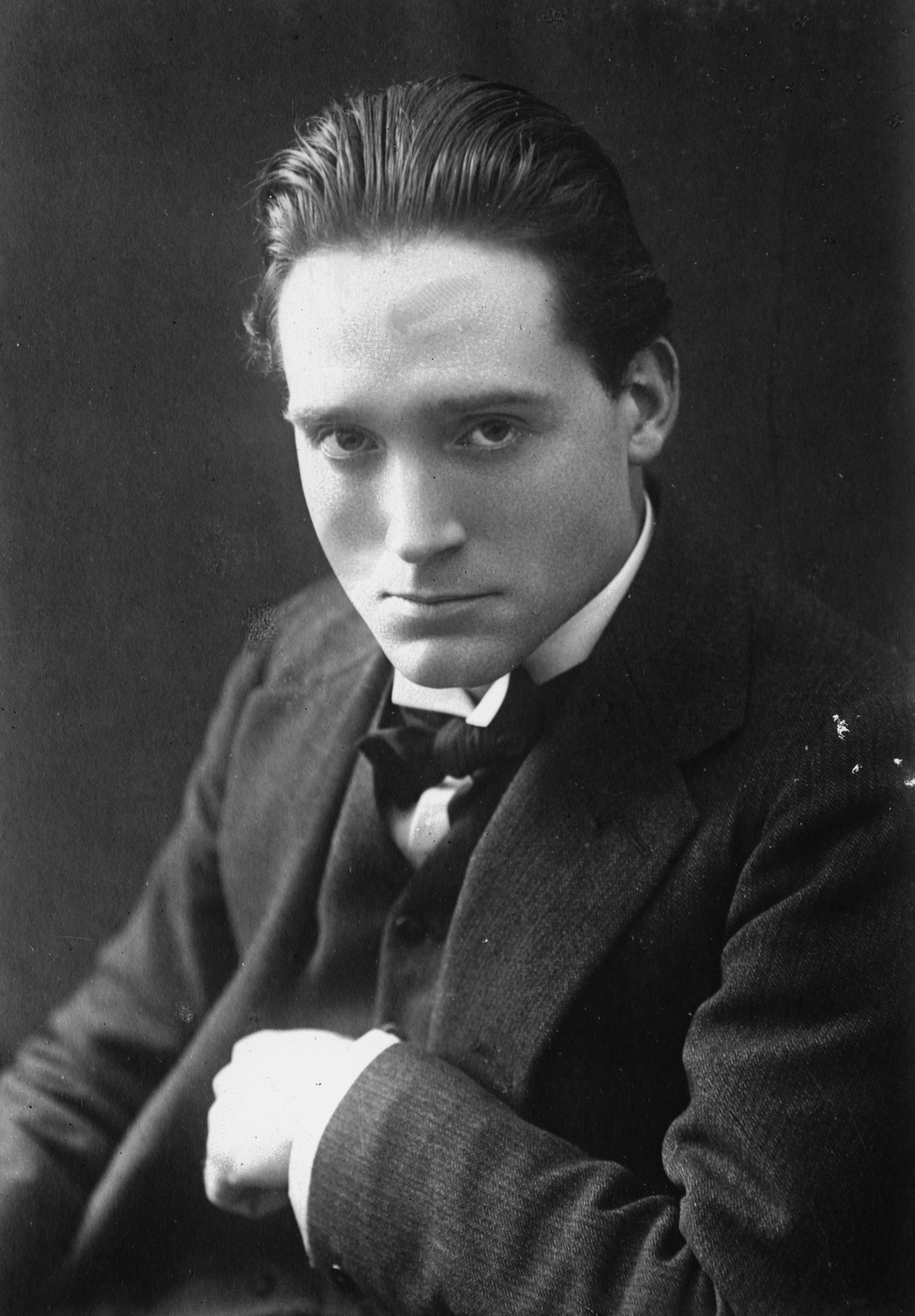 Title: Granville Barker, three-quarters bust Abstract/medium: 1 negative : glass ; 5 x 7 in. or smaller.